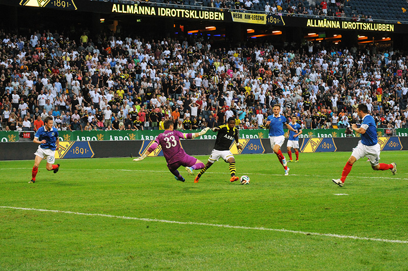 AIK Fotboll v Linfield F.C. 2014-15 UEFA Europa League Second Qualifying Round - Second Leg. Played at Friends Arena, Solna on 24 July 2014.